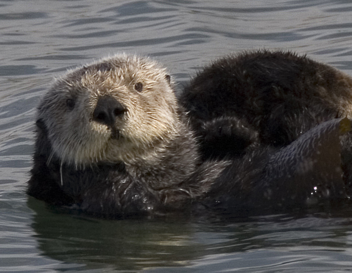 Cropped version of: Mother Sea Otter with pup at Morro Rock, Feb. 12, 2007 - photo by Mike Baird, Shot w/ a Canon 5D w/ 600 mm f/4.0 IS lens w/ 1.4TE